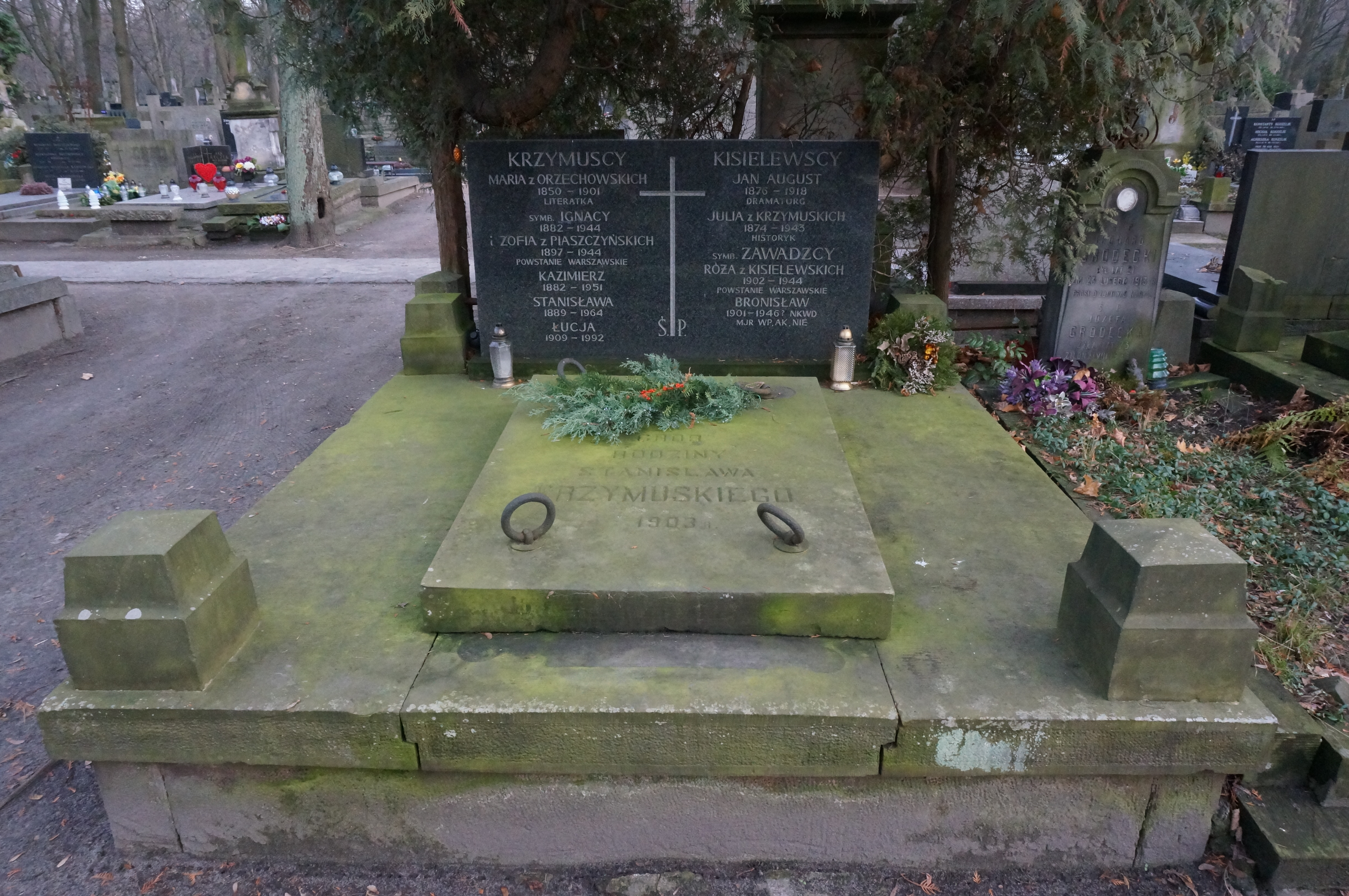 The grave of Jan August Kisielewski at the Powązki Cemetery (section 267, row 2, grave 1, 2)